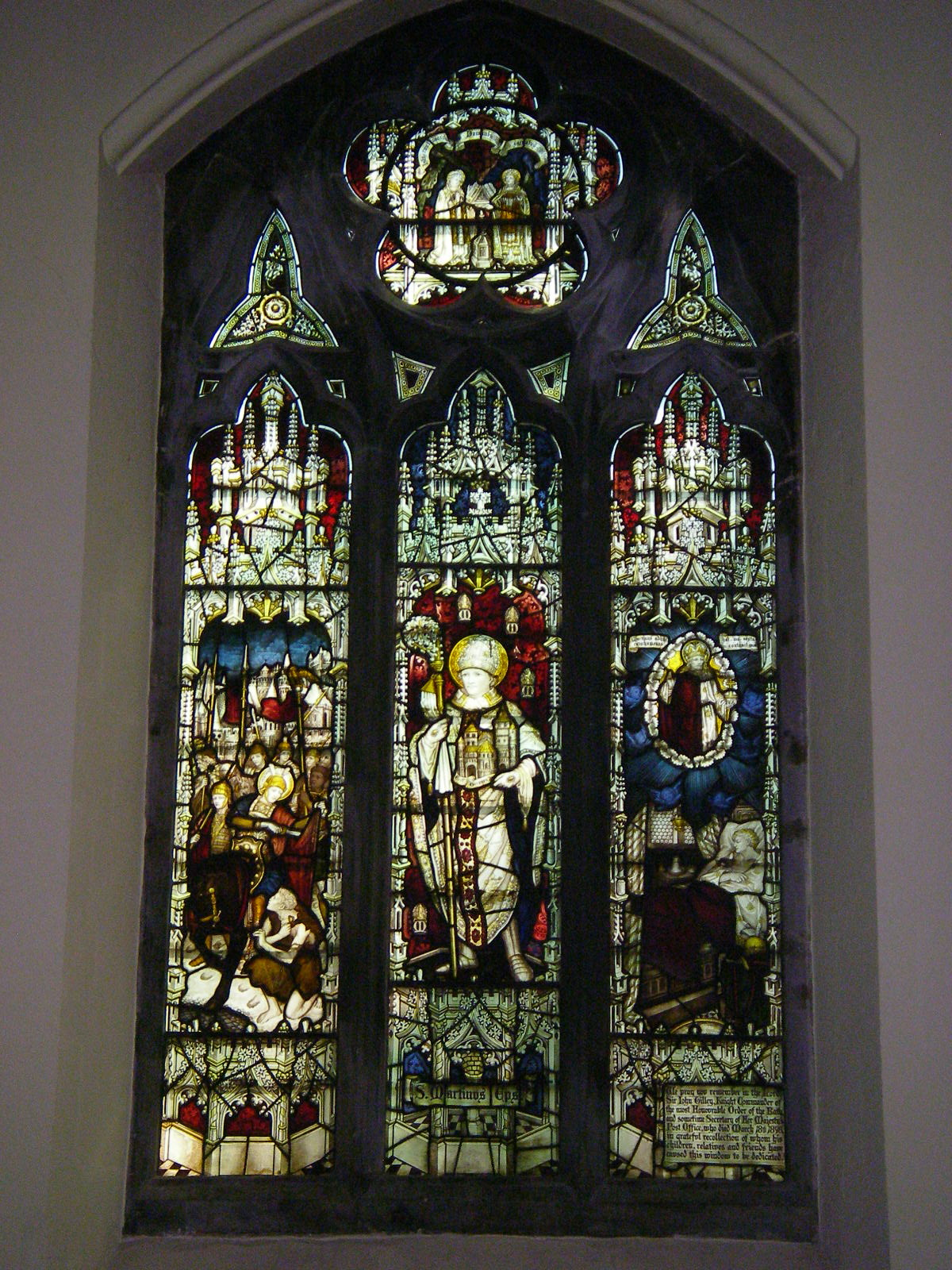 This window was dedicated to Sir John Tilley KCB on December 18th 1898. It is located at St Saviour, Pimlico, London.